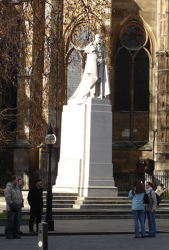 Statue of King George V, Old Palace Yard, Westminster, London. Westminster Abbey in background. 21 January 2006. Photographer: Fin Fahey.